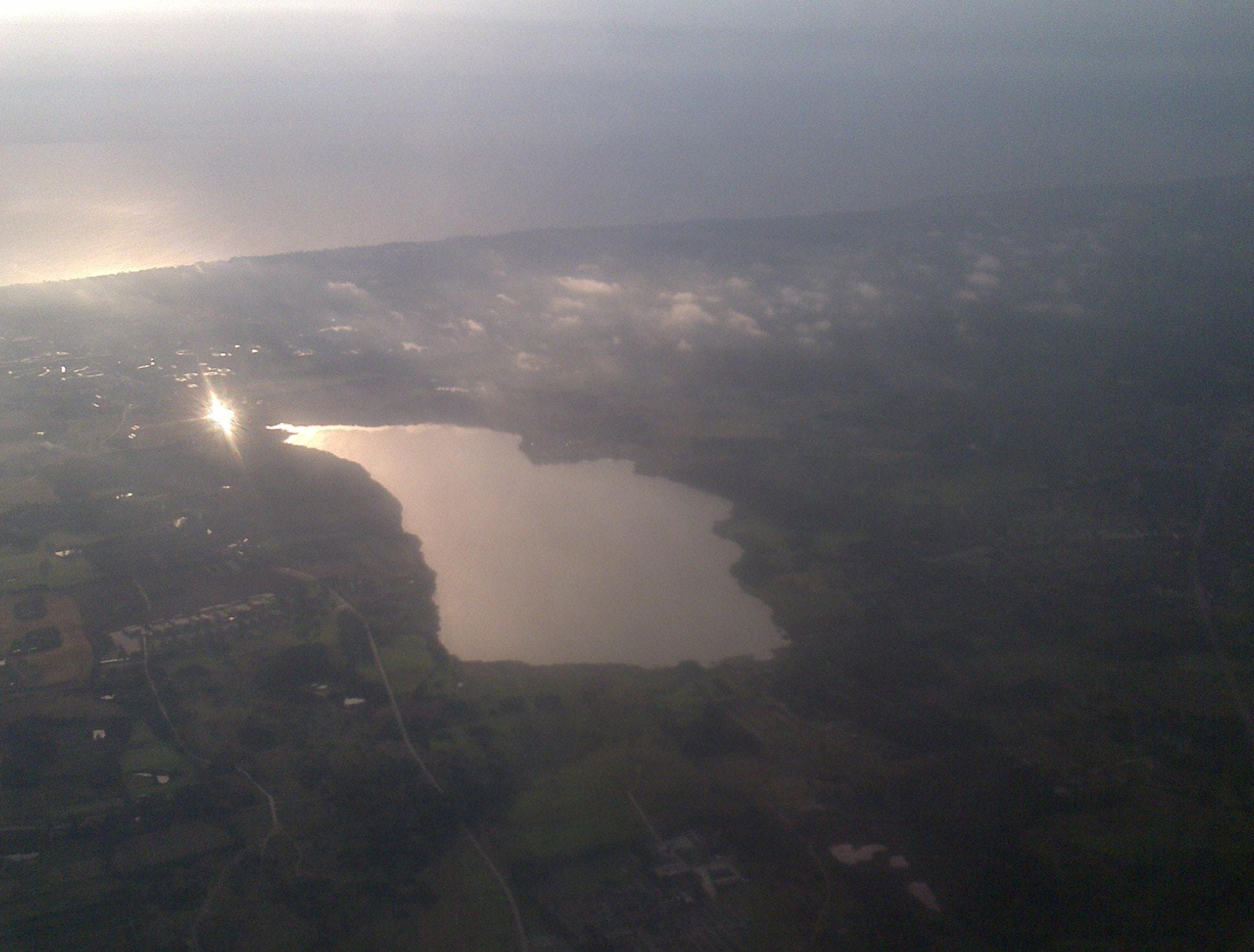 Air photo of Sjëlsö, in municipalities Rudersdal and Hörsholm, Zealand, Denmark.